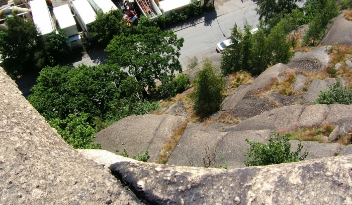 The precipice Ättestupan at the hill Ramberget in Göteborg, Sweden